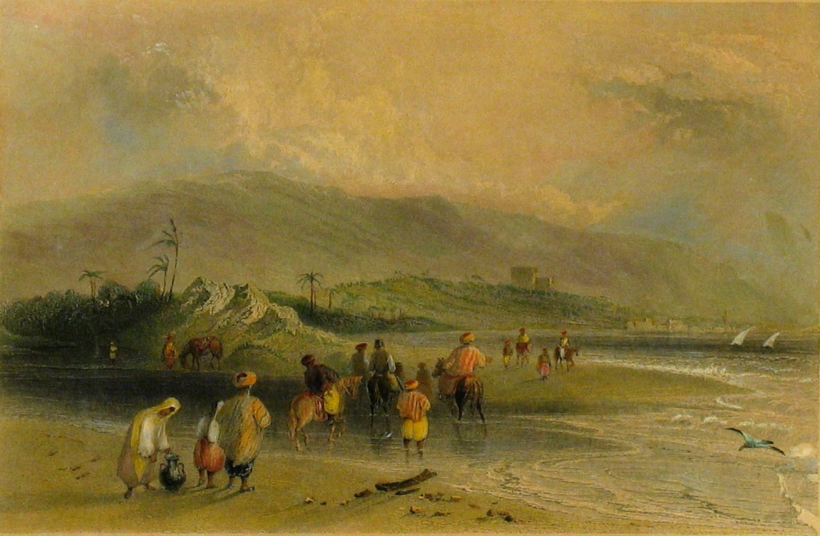 Tell Abu Hawam - William Henry Bartlett picture תל אבו הואם - ציור של וויליאם הנרי ברטלט This image was taken as part of the Elef Millim project trip and within the Wikipedia Loves Art project to the National Maritime Museum in Haifa in the northern part of Israel, which was held on Friday, 22nd January 2010. To view all images uploaded as pary of the Elef Millim Project